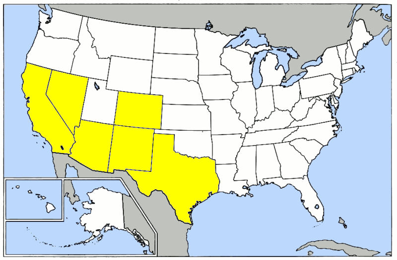 Western Flying Training Command (World War II) - Map. Based upon for basemap; Lineage and History of 31st Flying Training Wing (World War II); United States Air Force Historical Research Agency Document, Maxwell AFB, Alabama